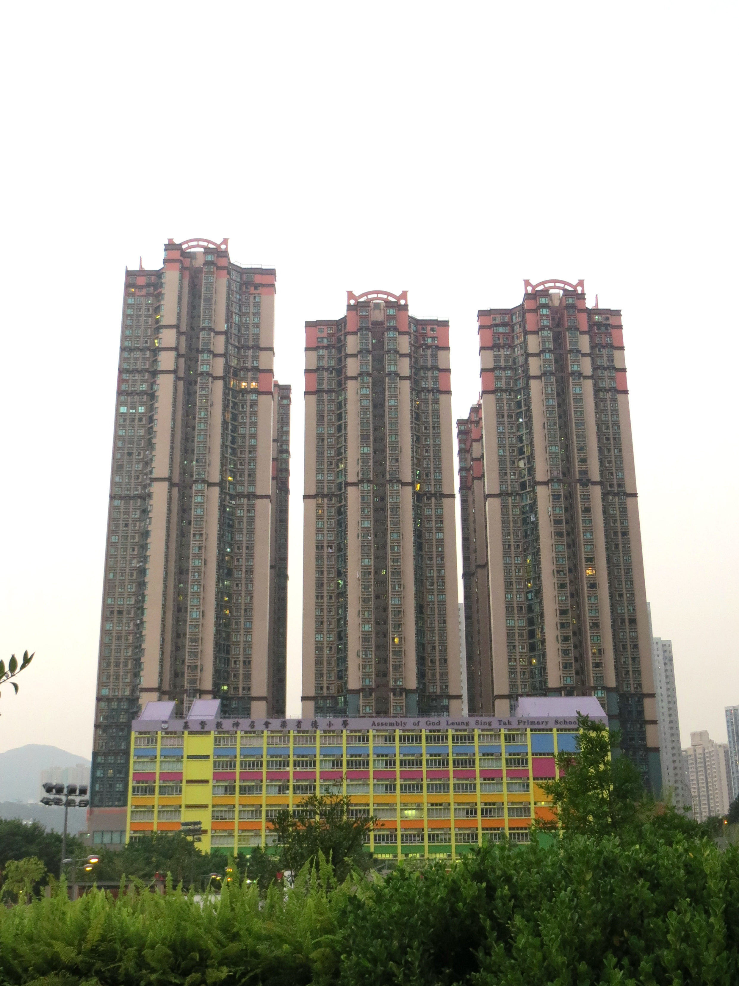 Nan Fung Plaza, Tseung Kwan O, New Territories, Hong Kong.